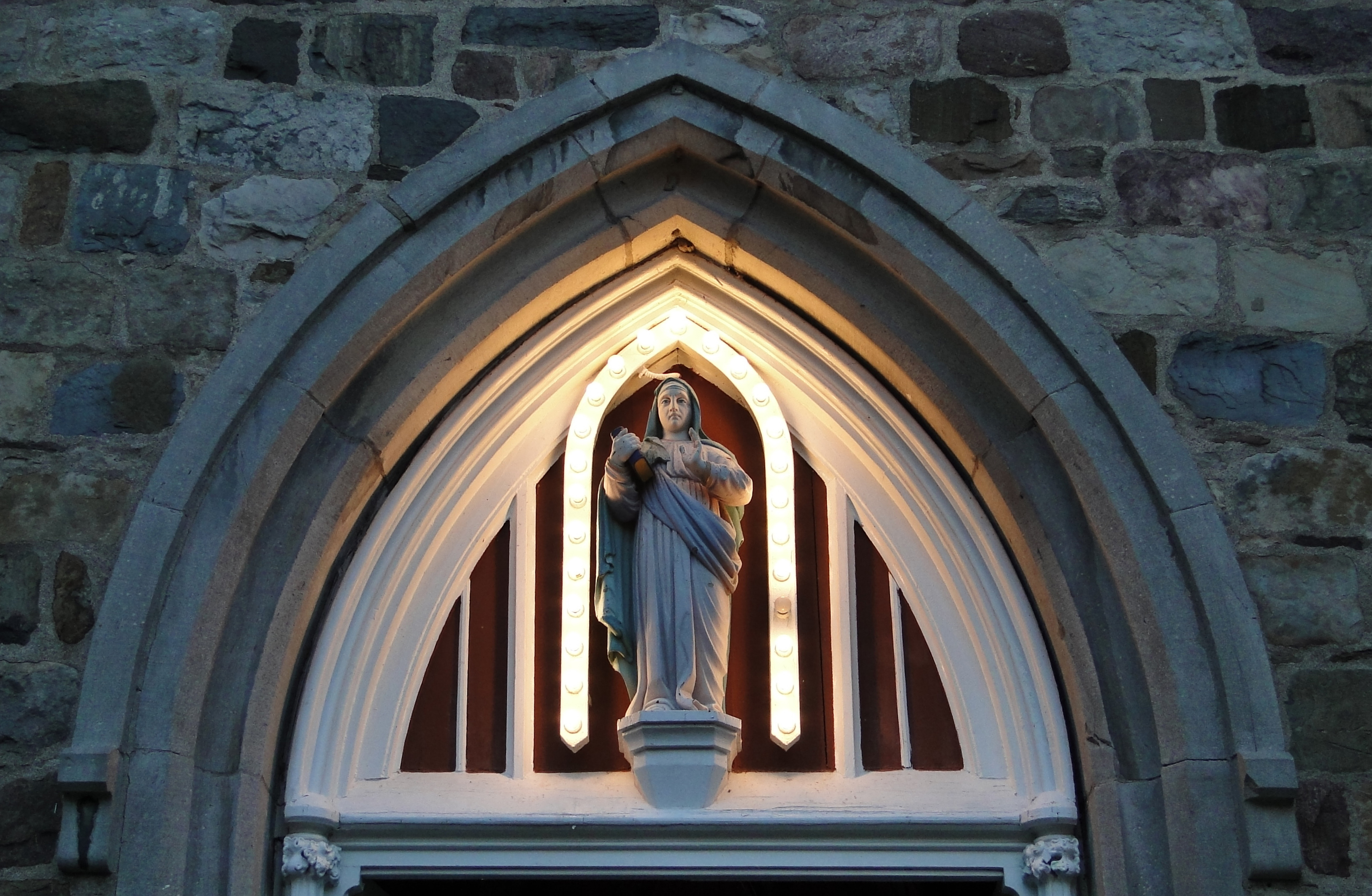 Tympanum of Saint Anne Chapel (1862), Varennes, province of Quebec, Canada